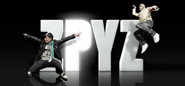 ZPYZ Logo